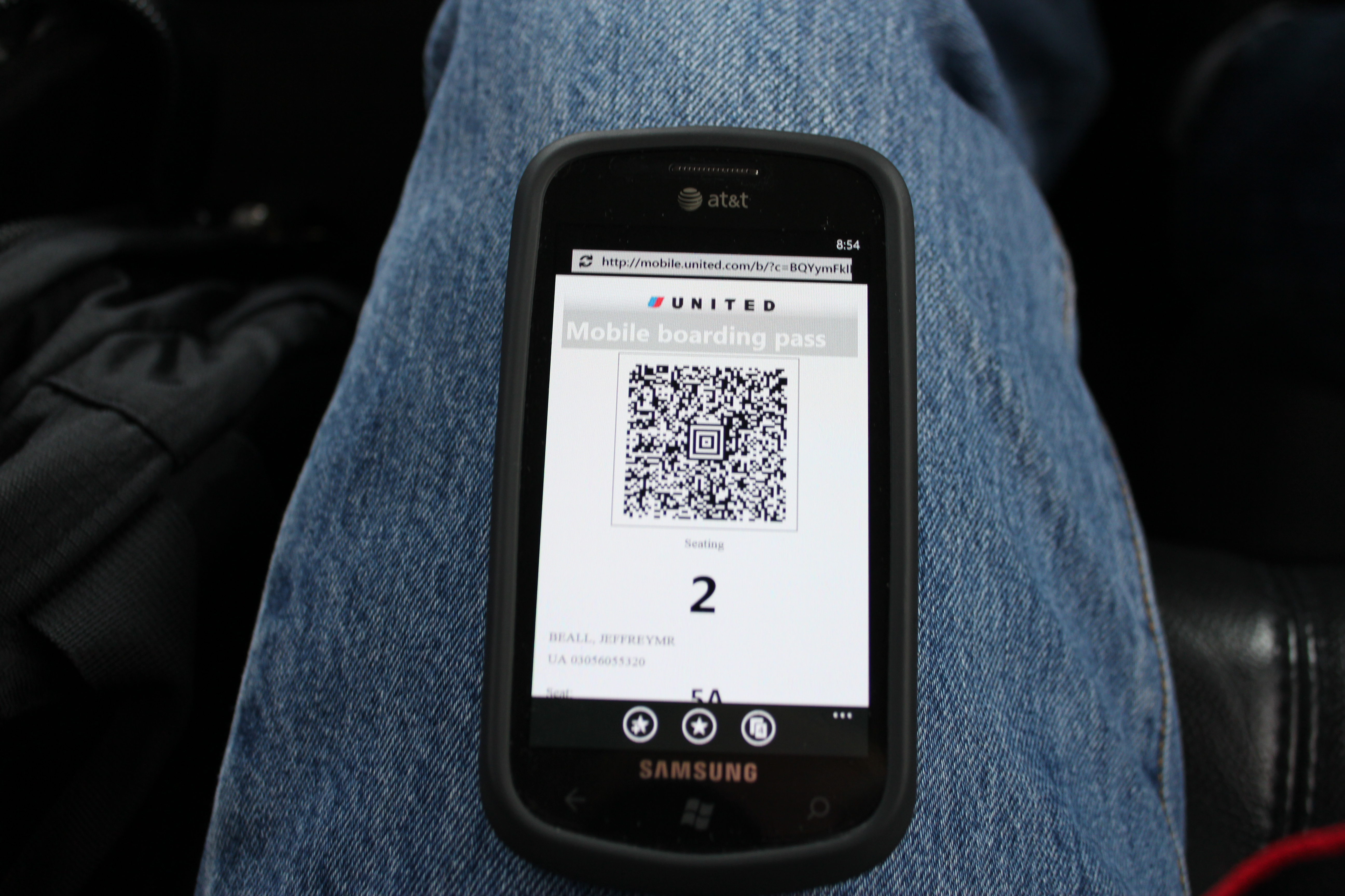 My first time ever using it. I am so green.